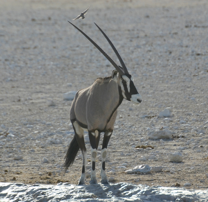 Gemsbok / Oryx in Etosha N.P. (Namibia) photo self taken by Susann Eurich (Kilara), November 2005